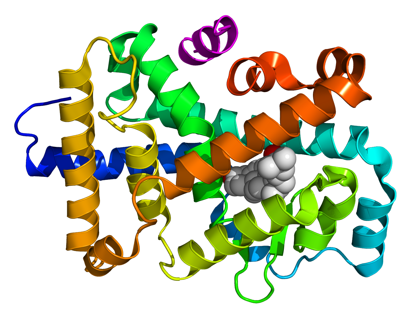 Crystallographic structure of the ligand binding domain of RORγ (rainbow colored, N-terminus = blue, C-terminus = red) complexed with 25-hydroxycholesterol (space-filling model (carbon = white, oxygen = red) and the NCOA2 coactivator (magneta).[1]